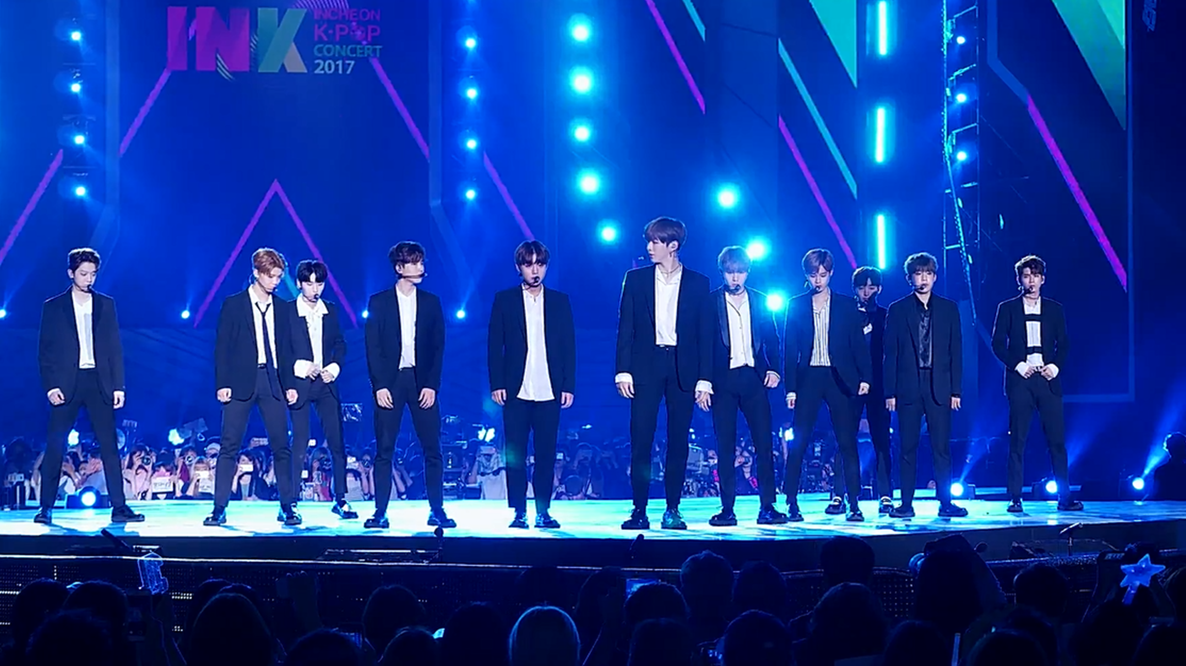 Wanna One performing "Pick Me" at Incheon K-POP Concert on September 9, 2017.